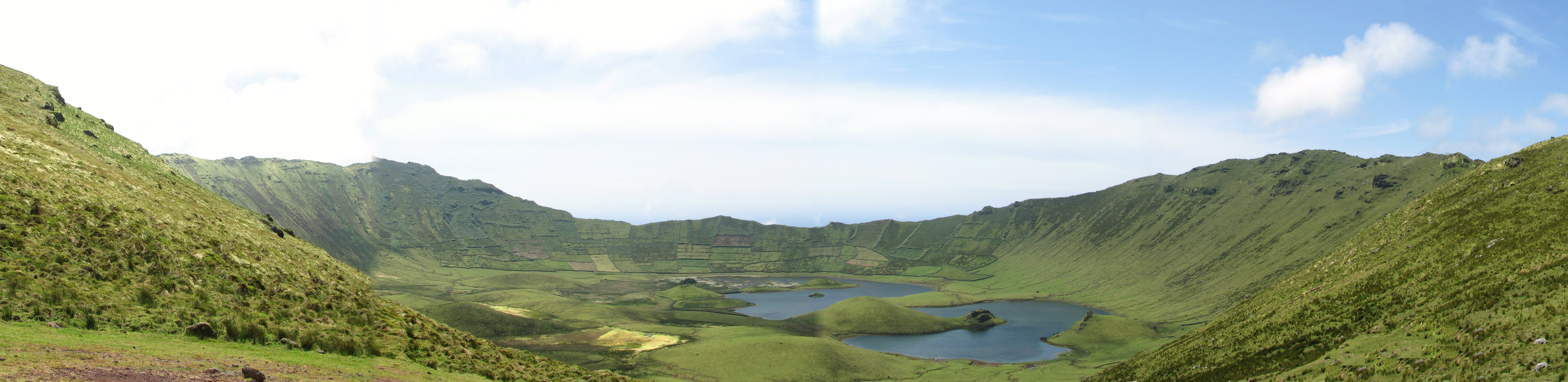 Caldeirão do Corvo, a complex lake crater at the summit of Corvo island, Azores.